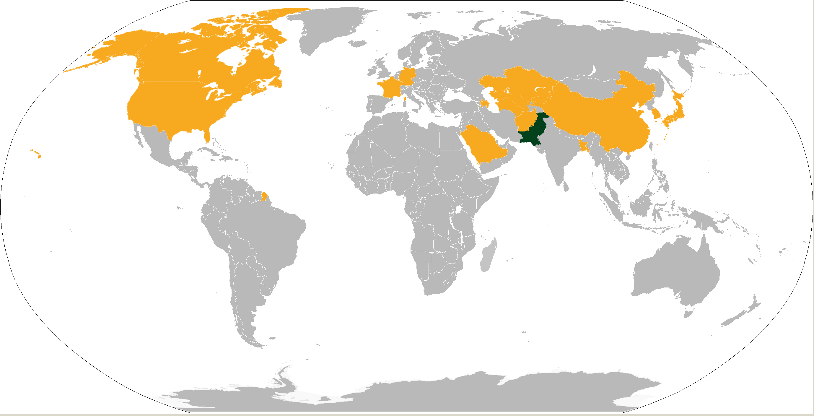 Map depicting worldwide operations of National Bank of Pakistan. Highlighted countries have branches, subsidiaries and/or representative offices of the bank. Pakistan is highlighted in dark green for reference.